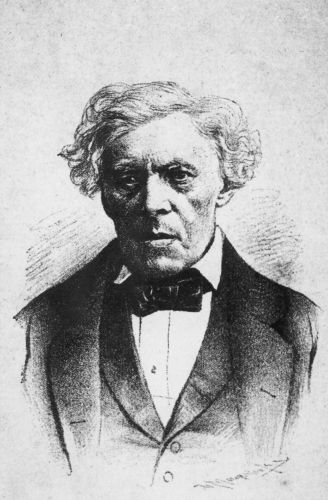 Gašpar Mašek (1794-1873), Slovene composer and conductor.